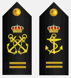 Spanish Navy Officer Candidate rank insignia